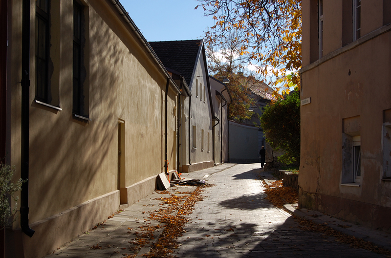 Siltadarzio str. in Vilnius, Lithuania.